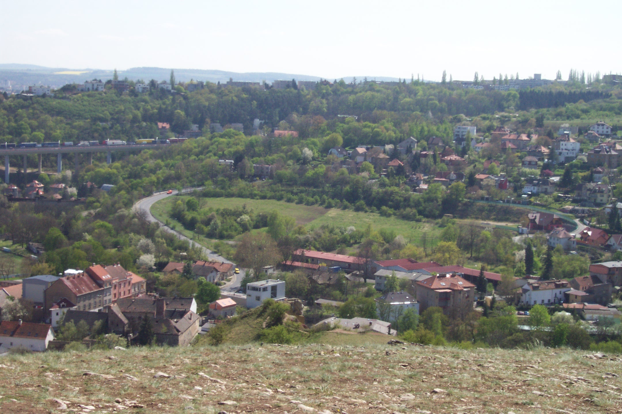 Prague, Wiev on Hlubočepy